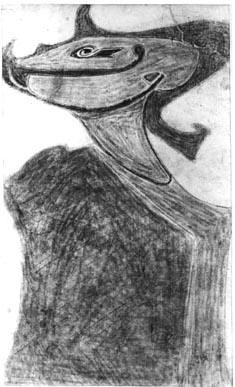 Ink-on-paper painting by Rabindranath Tagore (undated).